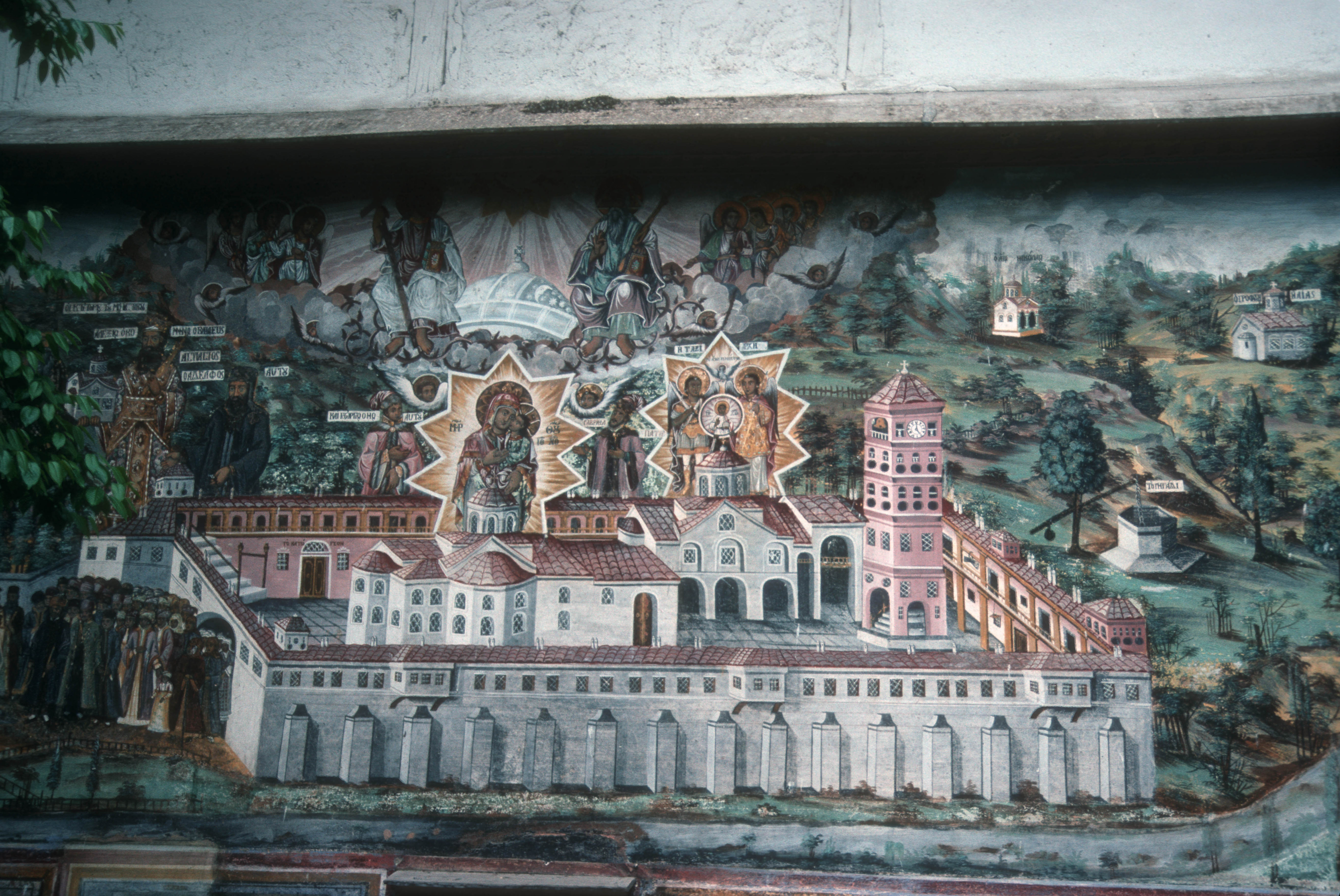 PANORAMA MURAL ON THE OUTSIDE WALL OF THE REFECTORY BY ALEXEI ATANASOV DEPICTING A PROCESSION CARRYING AN ICON FROM 1311 AND SHOWS THE MONASTERY AS IT APPEARED AT THAT TIME. THIS IS THE MOST FAMOUS WORK OF ART IN THE MONASTERY NOT ONLY FOR ITS SHEER SIZE BUT FOR ITS FRESCO BUONO TECHNIQUE